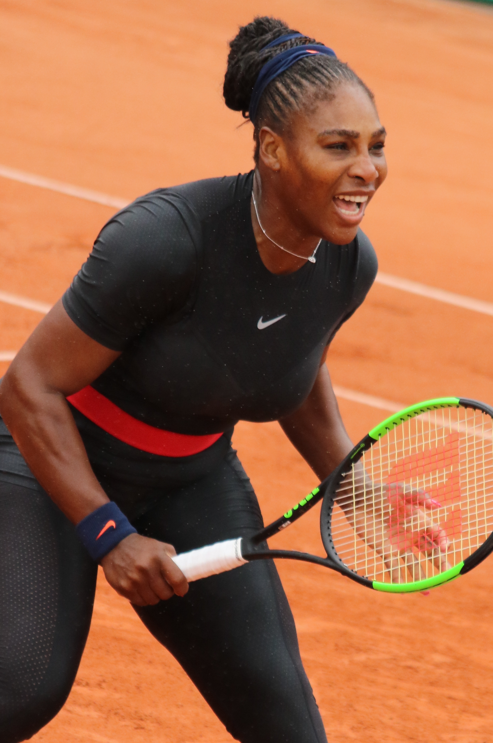 Williams S. RG18 (17)